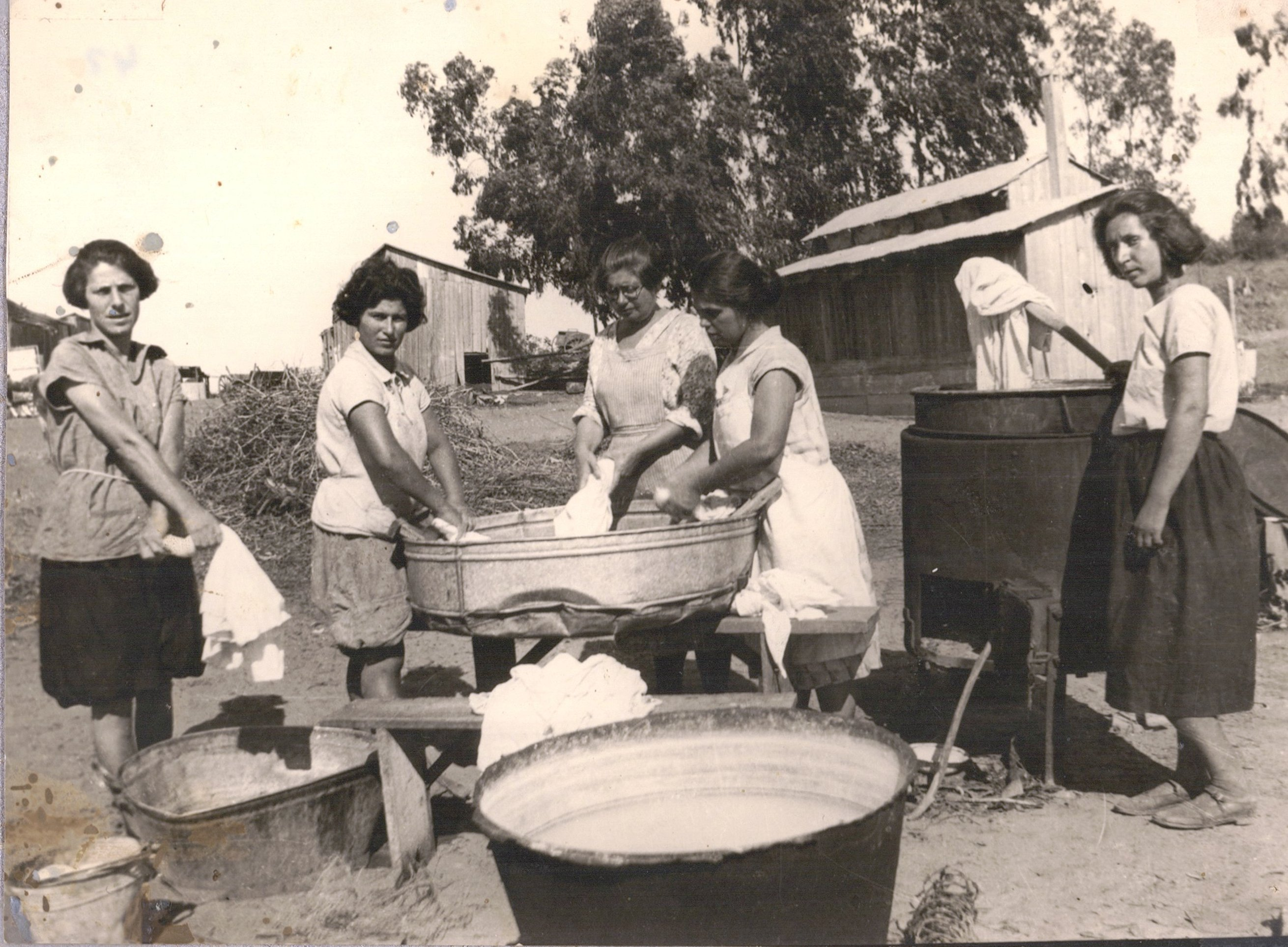 workers at Kibbutz Givat Hashlosha , Econimy of Israel